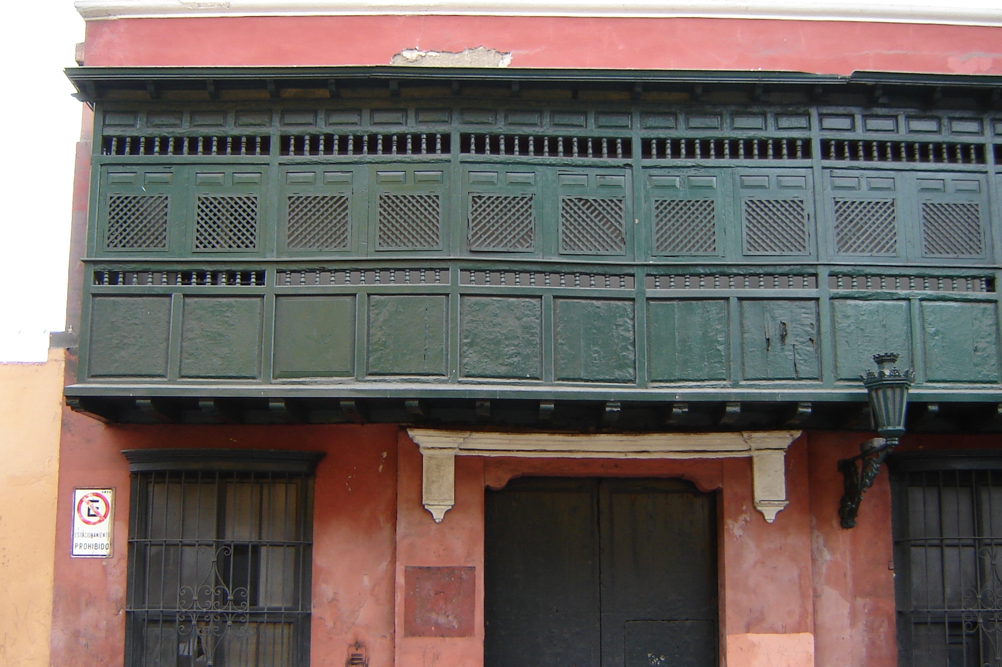 Balcony in Conde de Superunda Street in Lima.